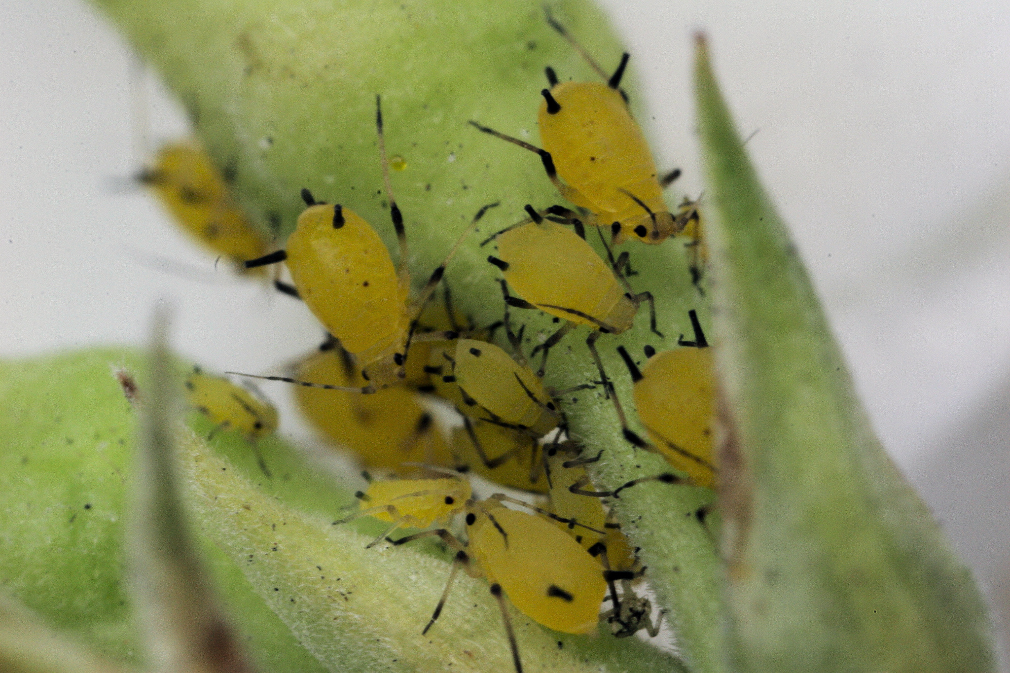 Group of Aphids